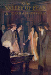 Dust-jacket of The Valley of Fear by Arthur Conan Doyle to illustrate an article.